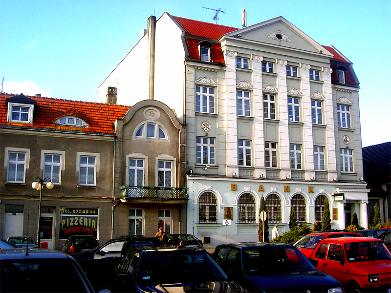 Historical People's Bank Building, Witkowo, Poland